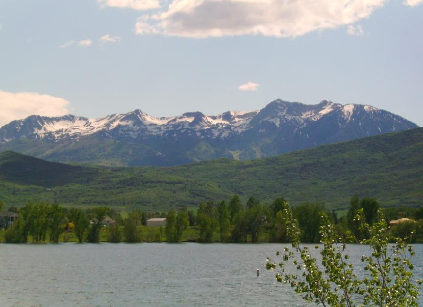 Mount Ogden from the east, with Pineview Reservoir in the foreground, Ogden Valley, Utah, United States.